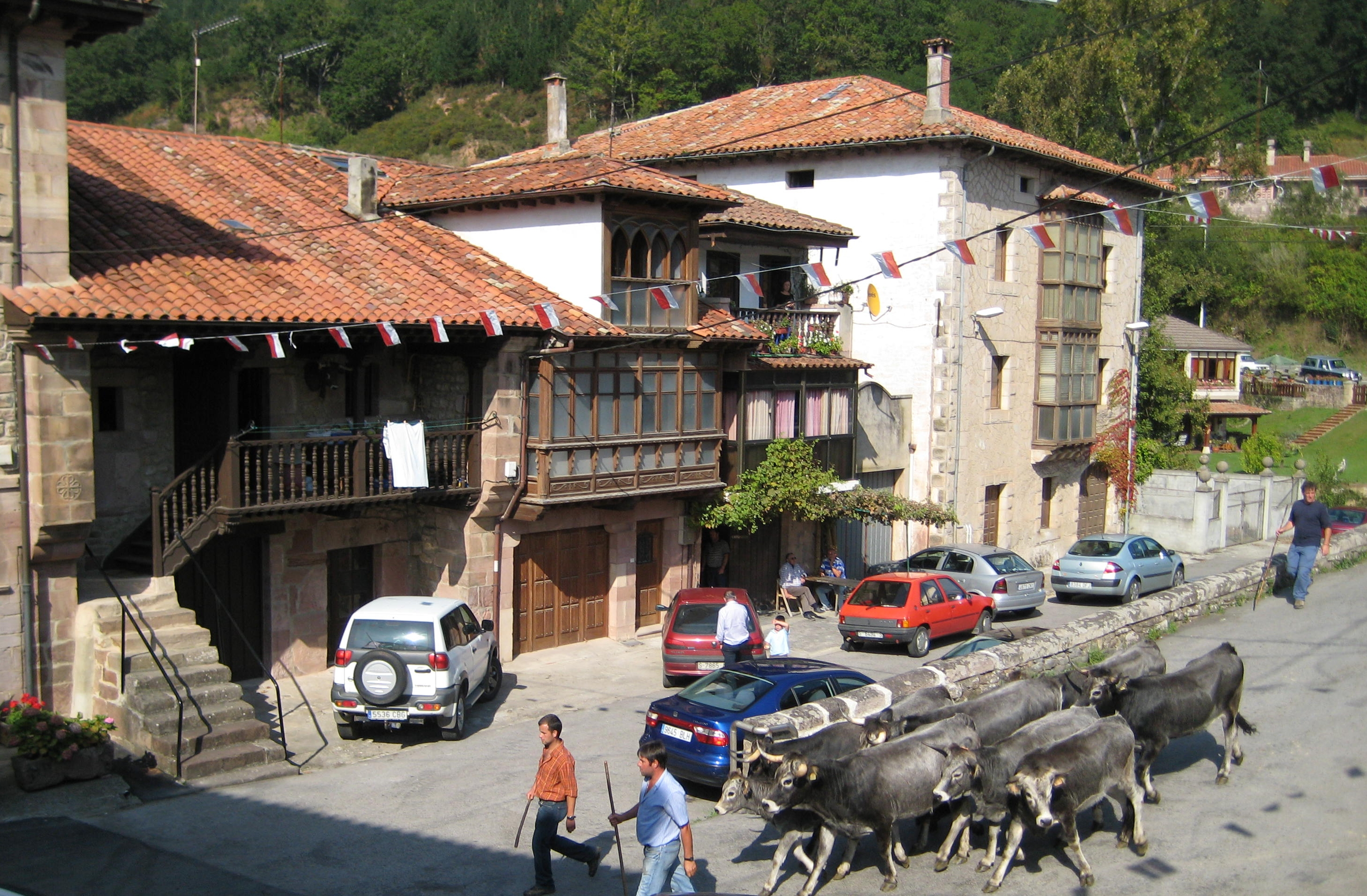 Cattle drive. Herd of Tudanca cows down Puentenansa, Rionansa, Cantabria, Spain.